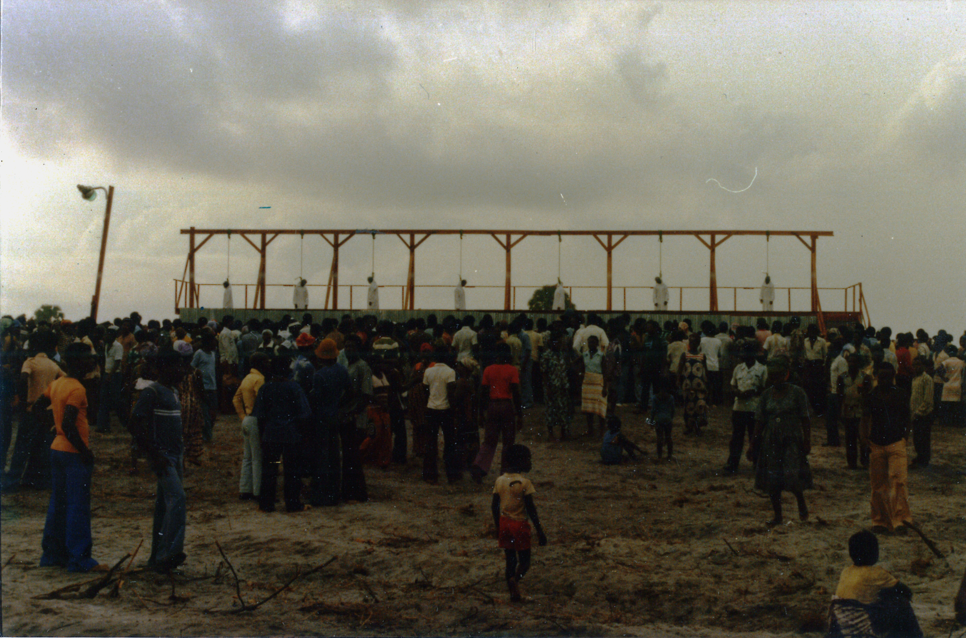 Public execution by hanging of seven men, including Daniel Anderson and Allen Yancy, convicted of ritual killings, at dawn in Harper, Liberia on February 16, 1979